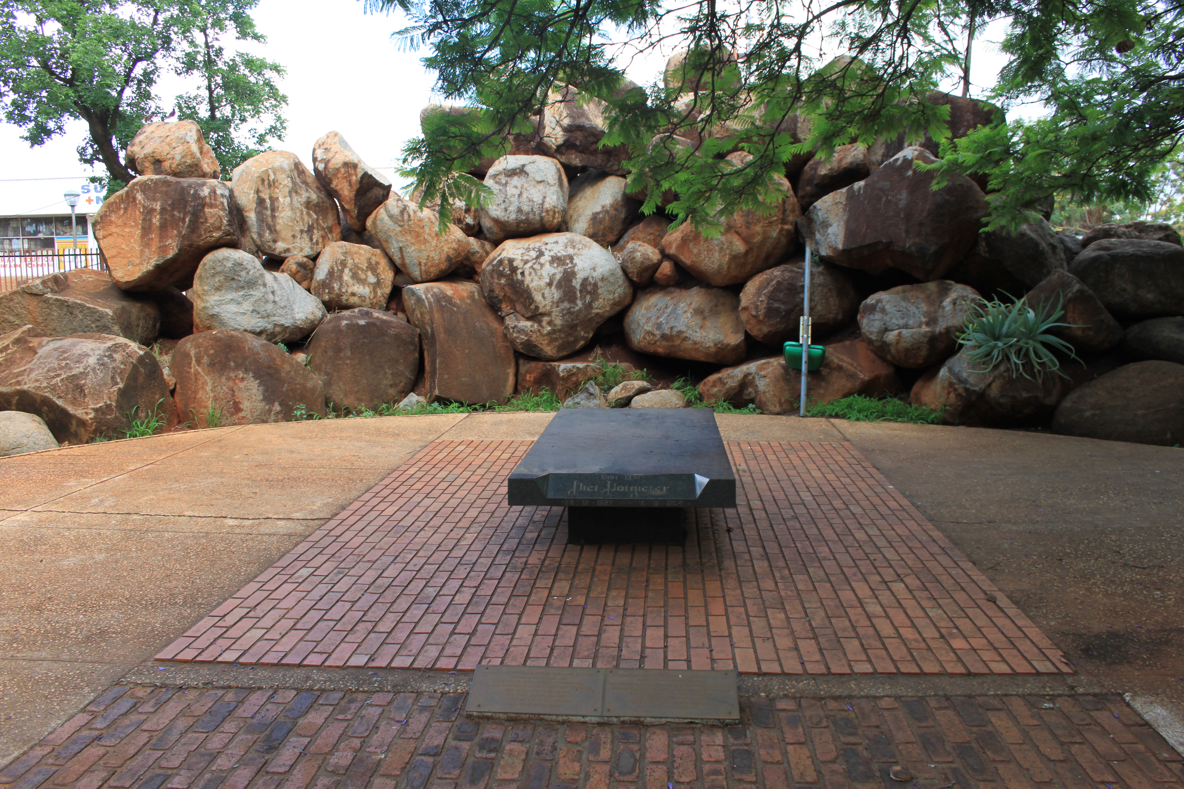 Mokopane, 0601, South Africa